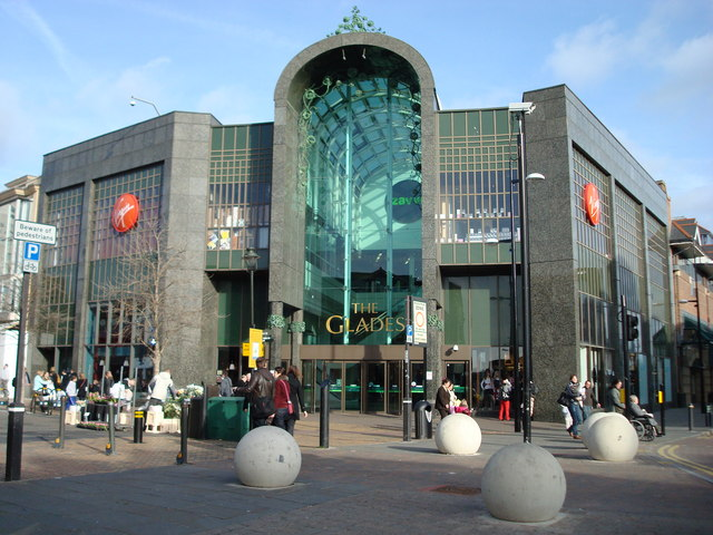 The Glades Shopping Centre, Bromley, Kent